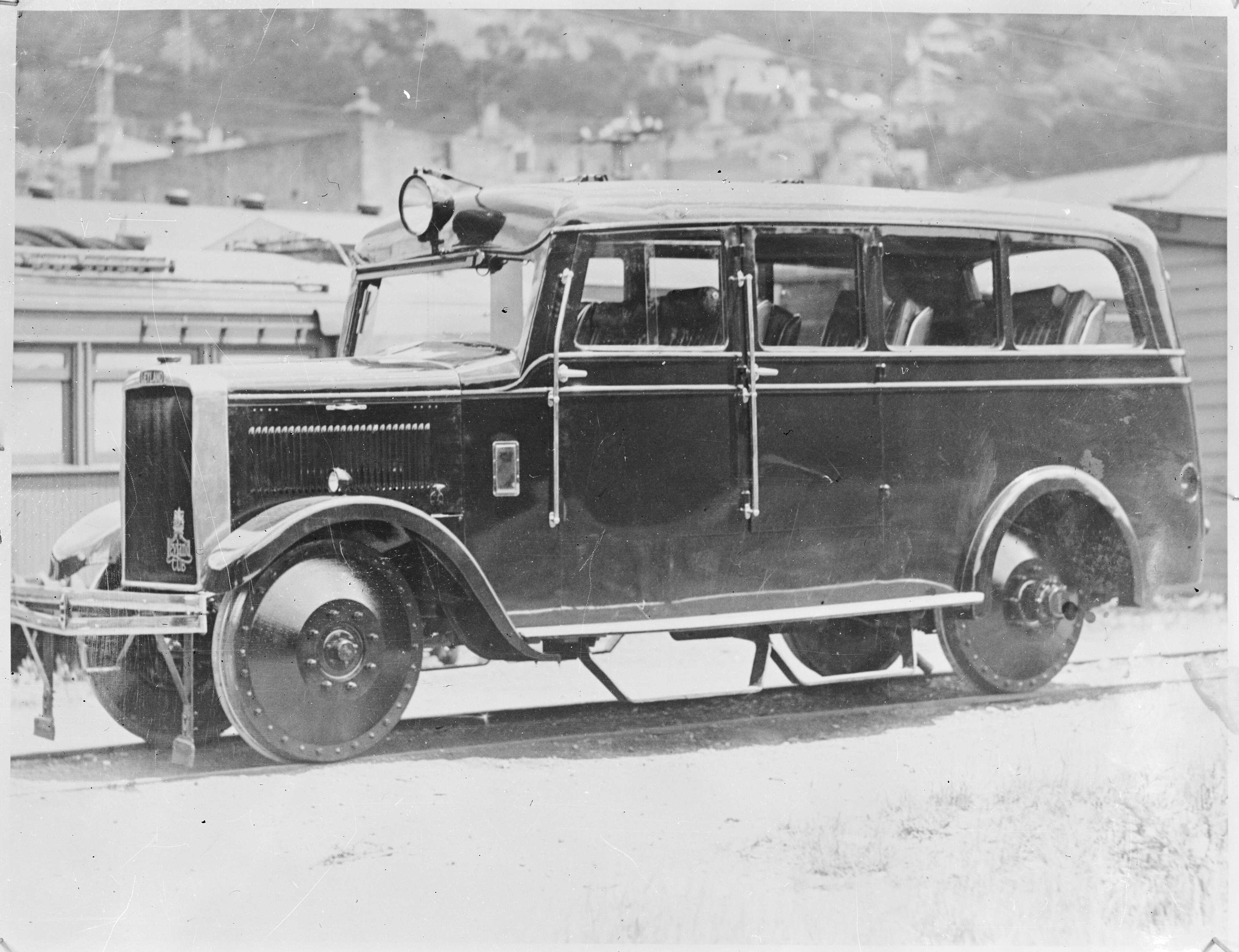 The "Red Terror", inspection railcar with a Leyland "club" chassis, used by the general manager of New Zealand Railways. Photographed by Albert Percy Godber, circa 1933.